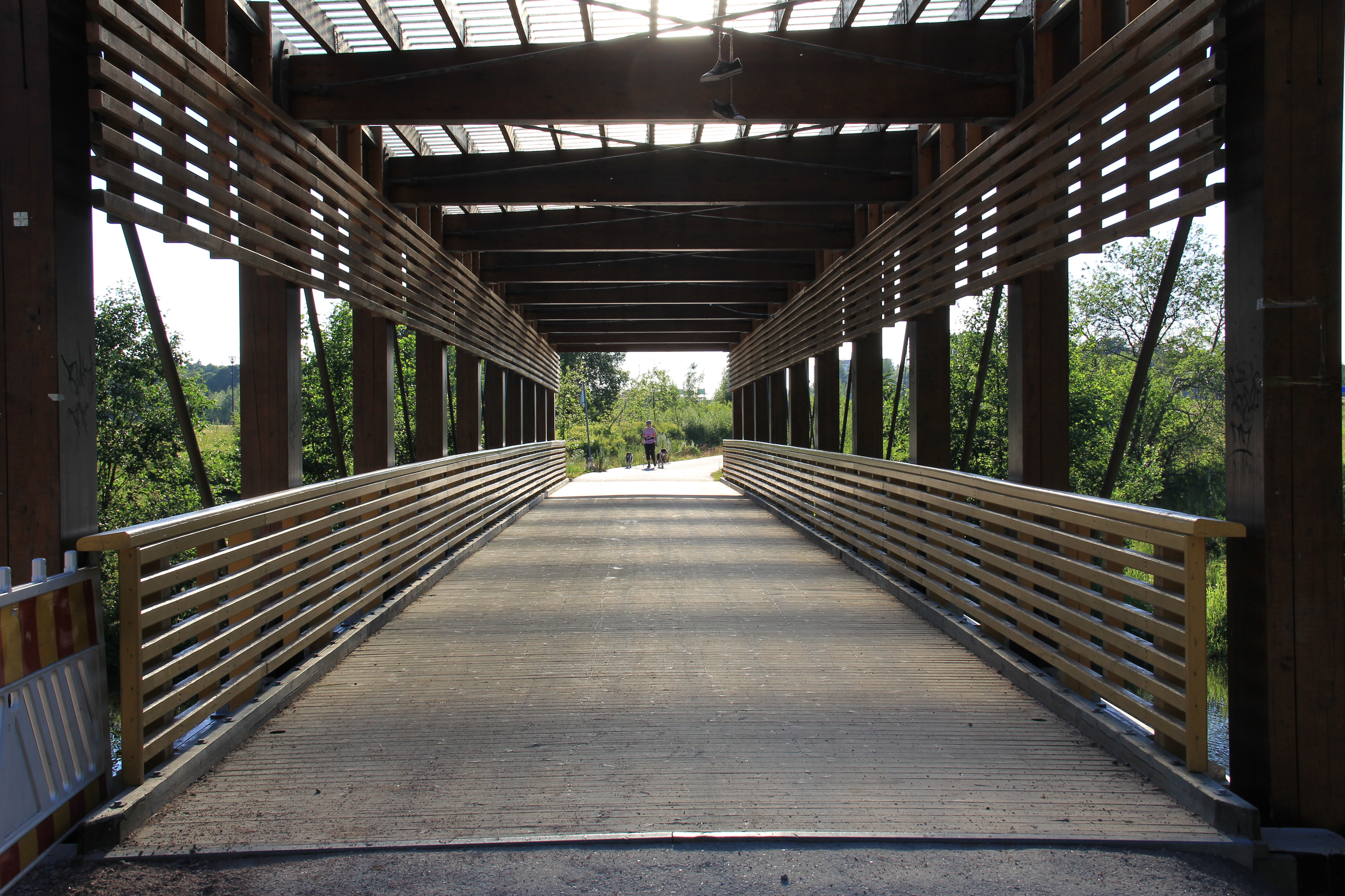 Sateenkaari pedestrian bridge, over River Kerava, between Helsinki and Vantaa, Finland. Wooden covered bridge for pedestrians and cyclists, one span of 36 meters, completed in 2002.